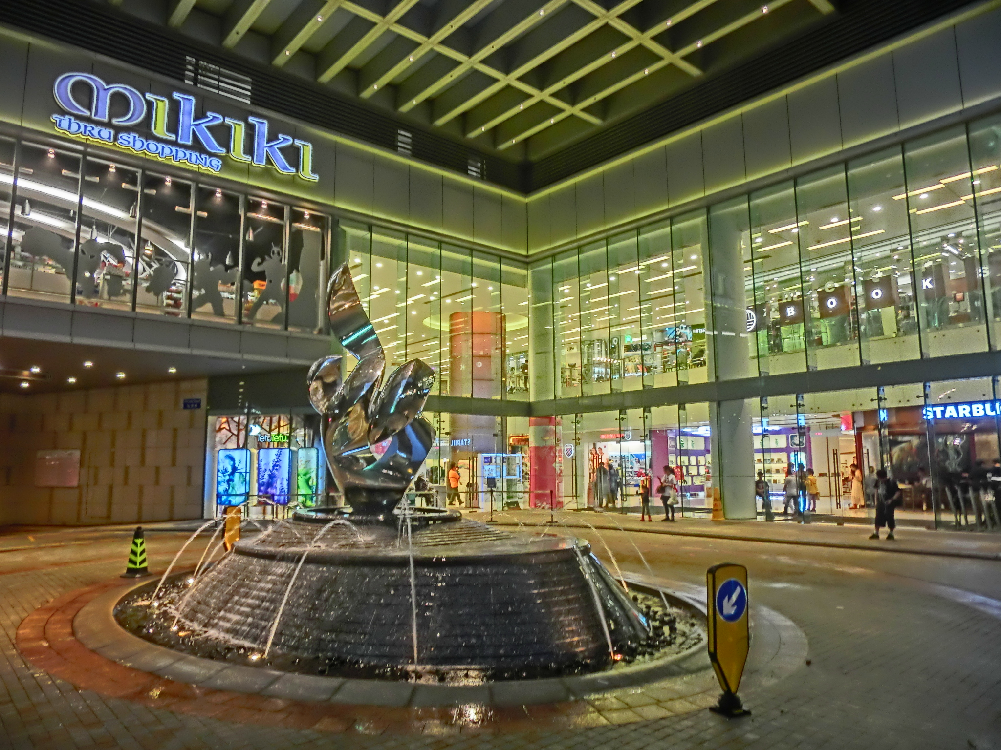 新蒲崗 景福街 譽港灣, Shopping mall Mikiki @ King Fuk Street, San Po Kong, Wong Tai Sin District, Hong Kong